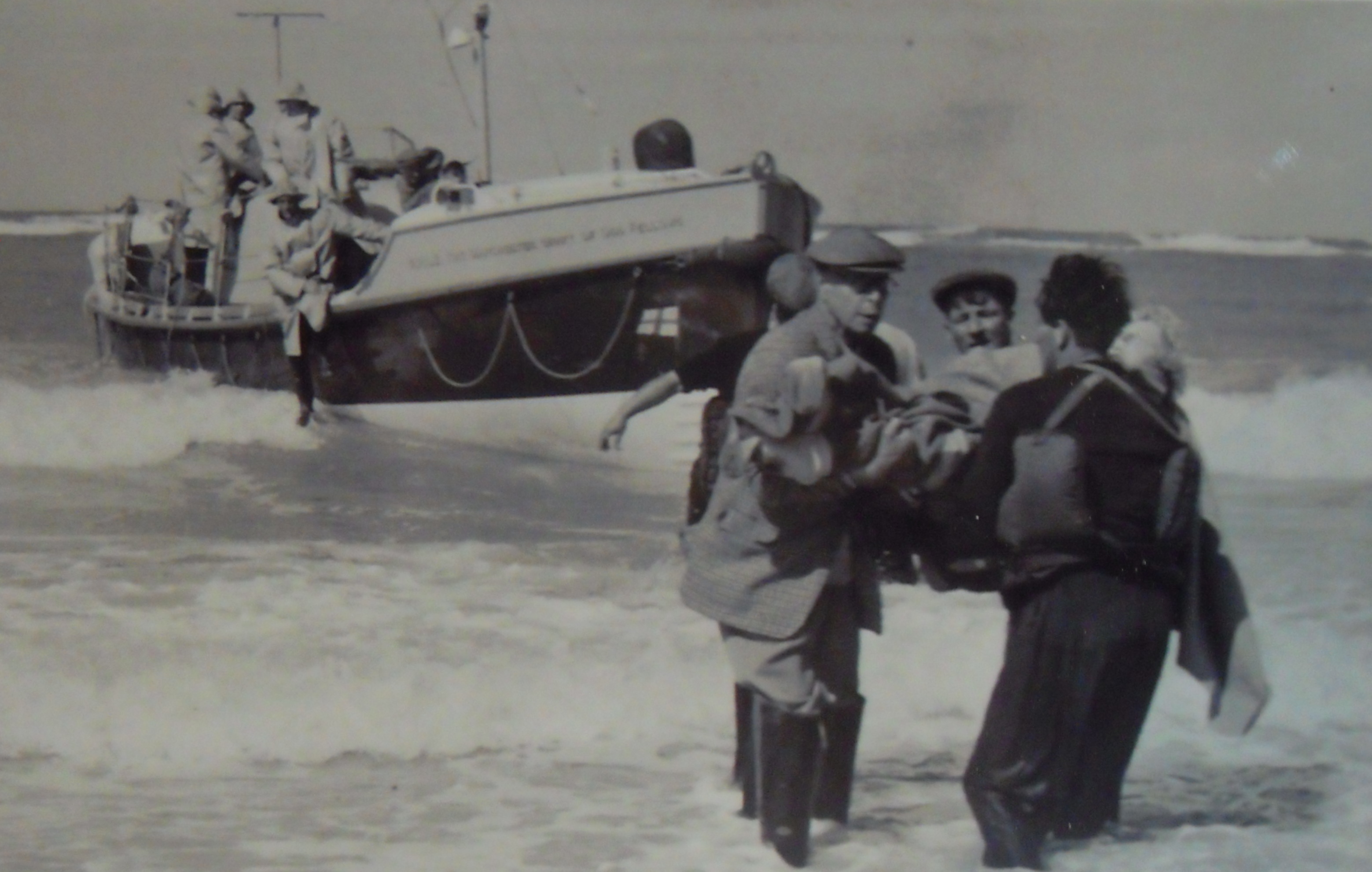 This a Photograph of an information board on display at the Sheringham Museum which shows a rescued crewman from the converted lifeboat Lucy which was attende by the Sheringham Lifeboat The Manchester Unity of Oddfellows in August 1961